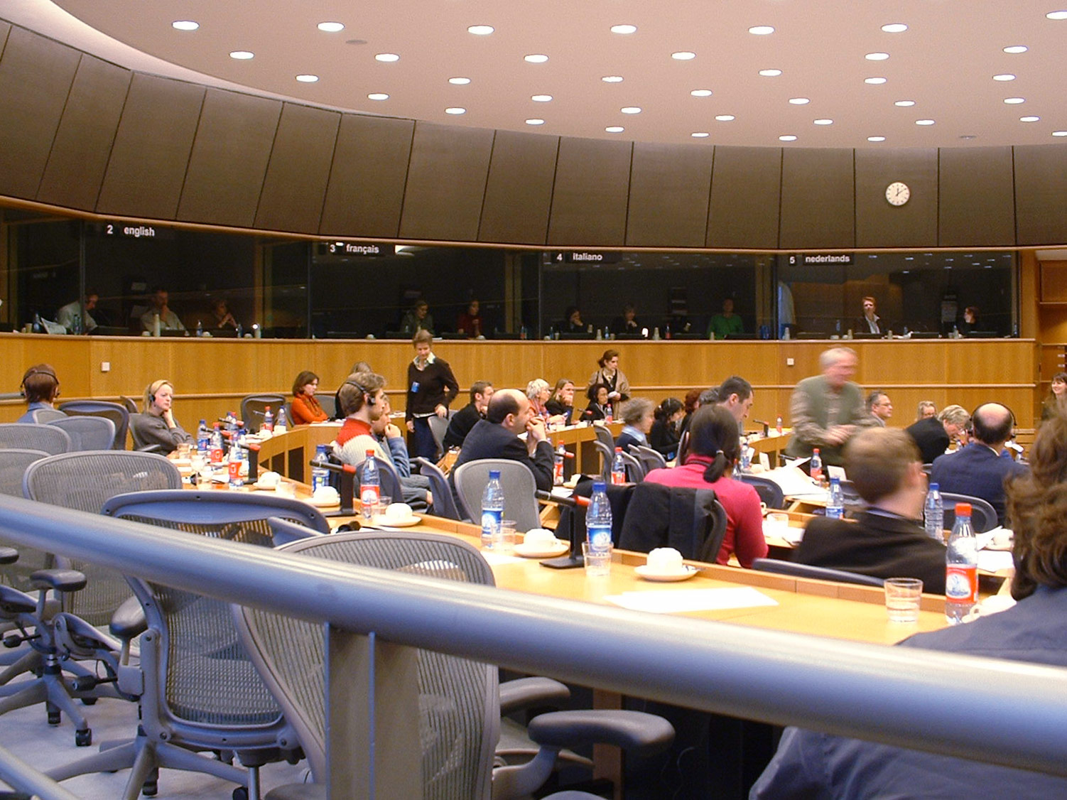 Parliamentary party meeting in European Parliament, Brussels